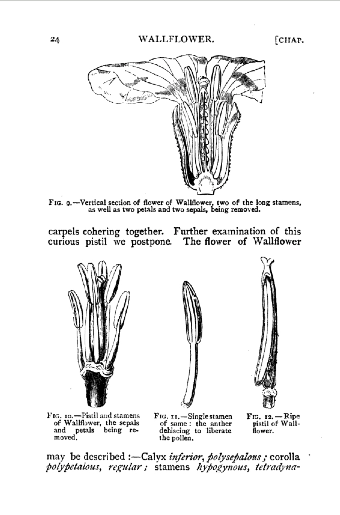 Illustrations of the parts of a wallflower by Anne Henslow Barnard for Daniel Oliver, Lessons in Elementary Biology (1864), Figures 9-12, p. 24.